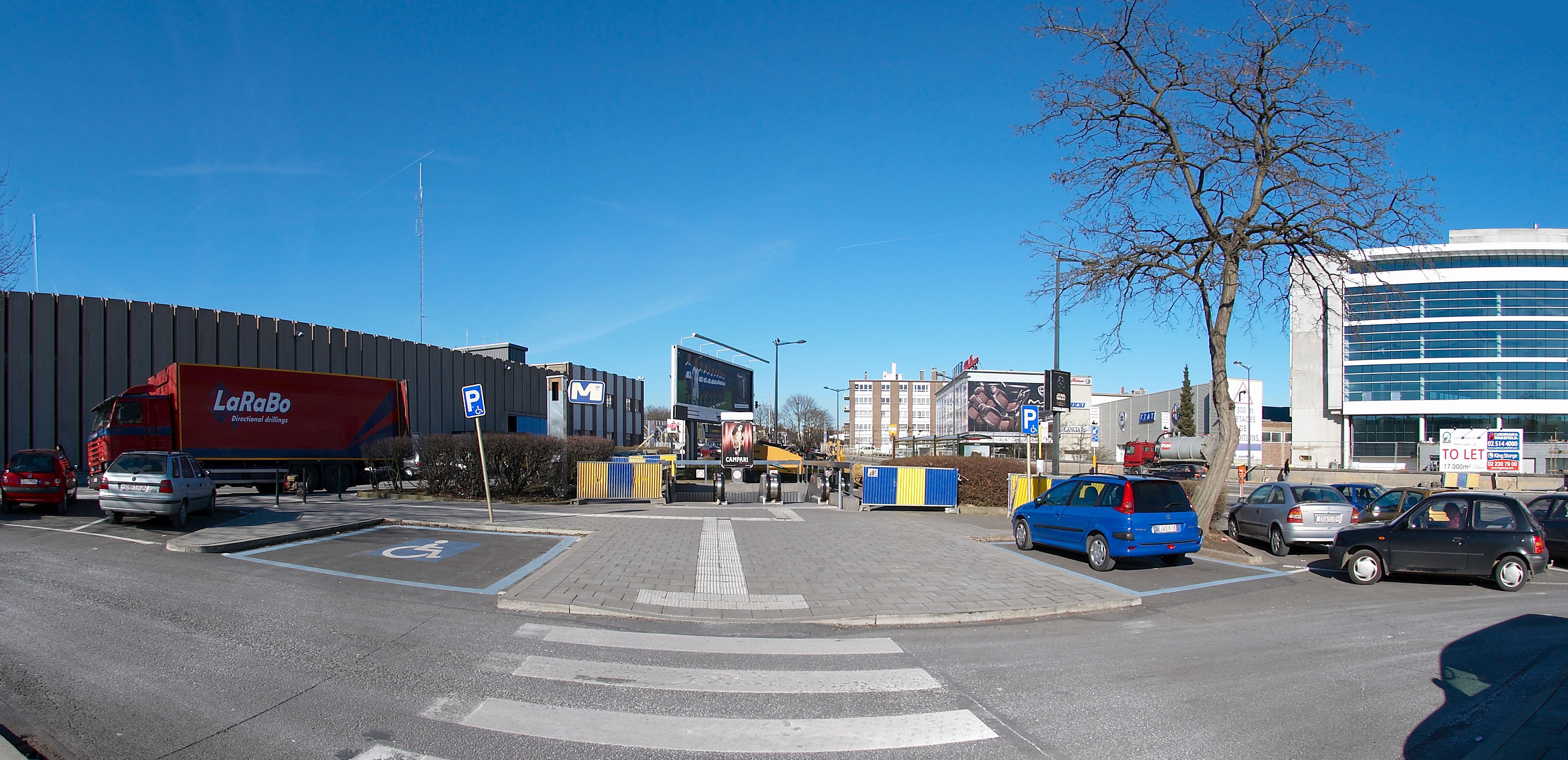 Entrance of metro station Delta, Brussels, Belgium, looking direction NNW.